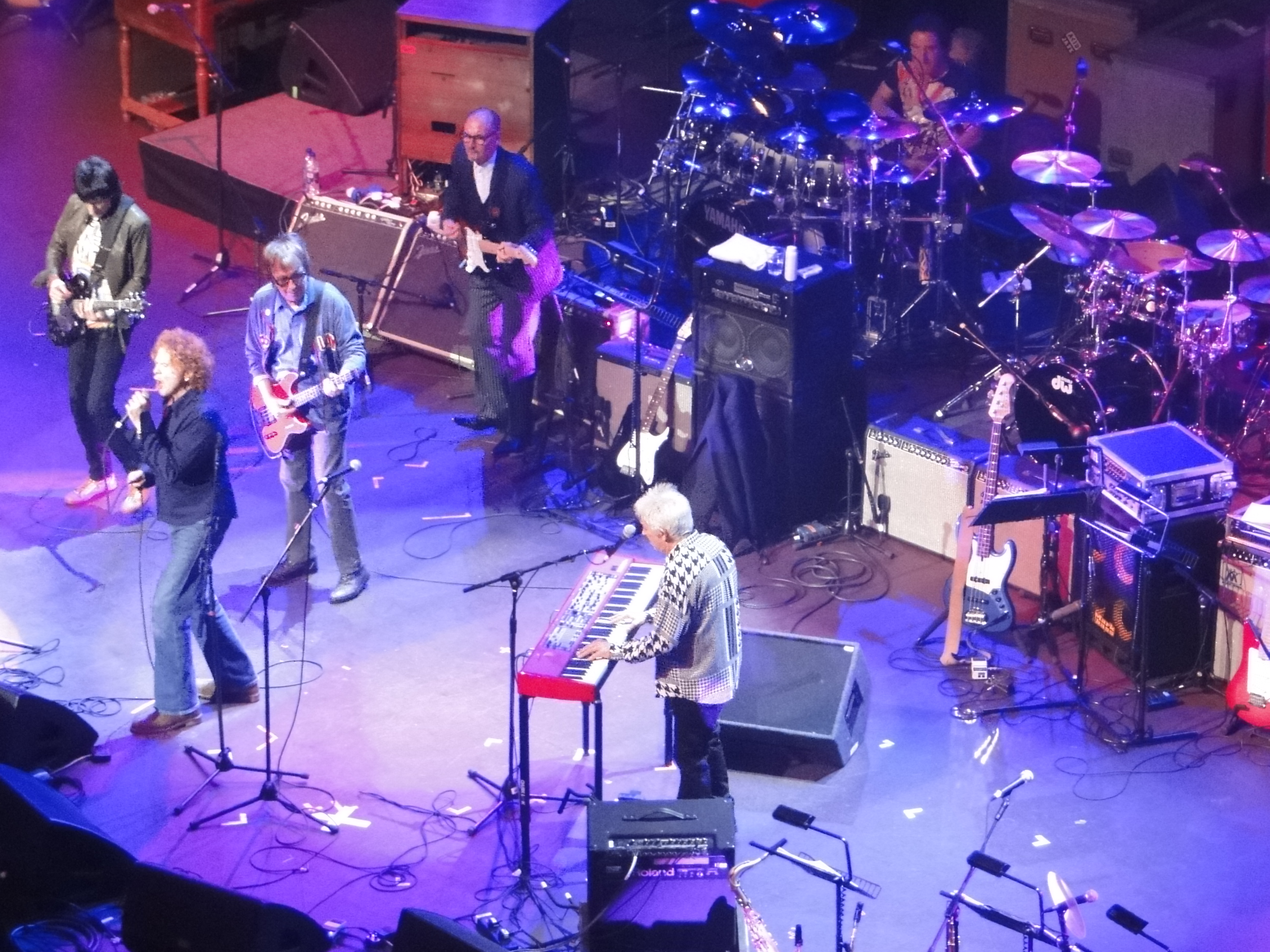 Faces at a reunion concert, Royal Albert Hall, London, October 2009. Pictured are Ronnie Wood, Mick Hucknall, Bill Wyman, Andy Fairweather-Low, Ian McLagan and Kenney Jones on drums.